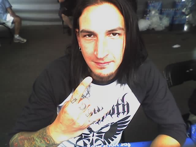 Alexi Rodriguez: Ozzfest Meet-N-Greet on 8/20/07 Summary Alexi Rodriguez: Ozzfest Meet-N-Greet on 8/20/07